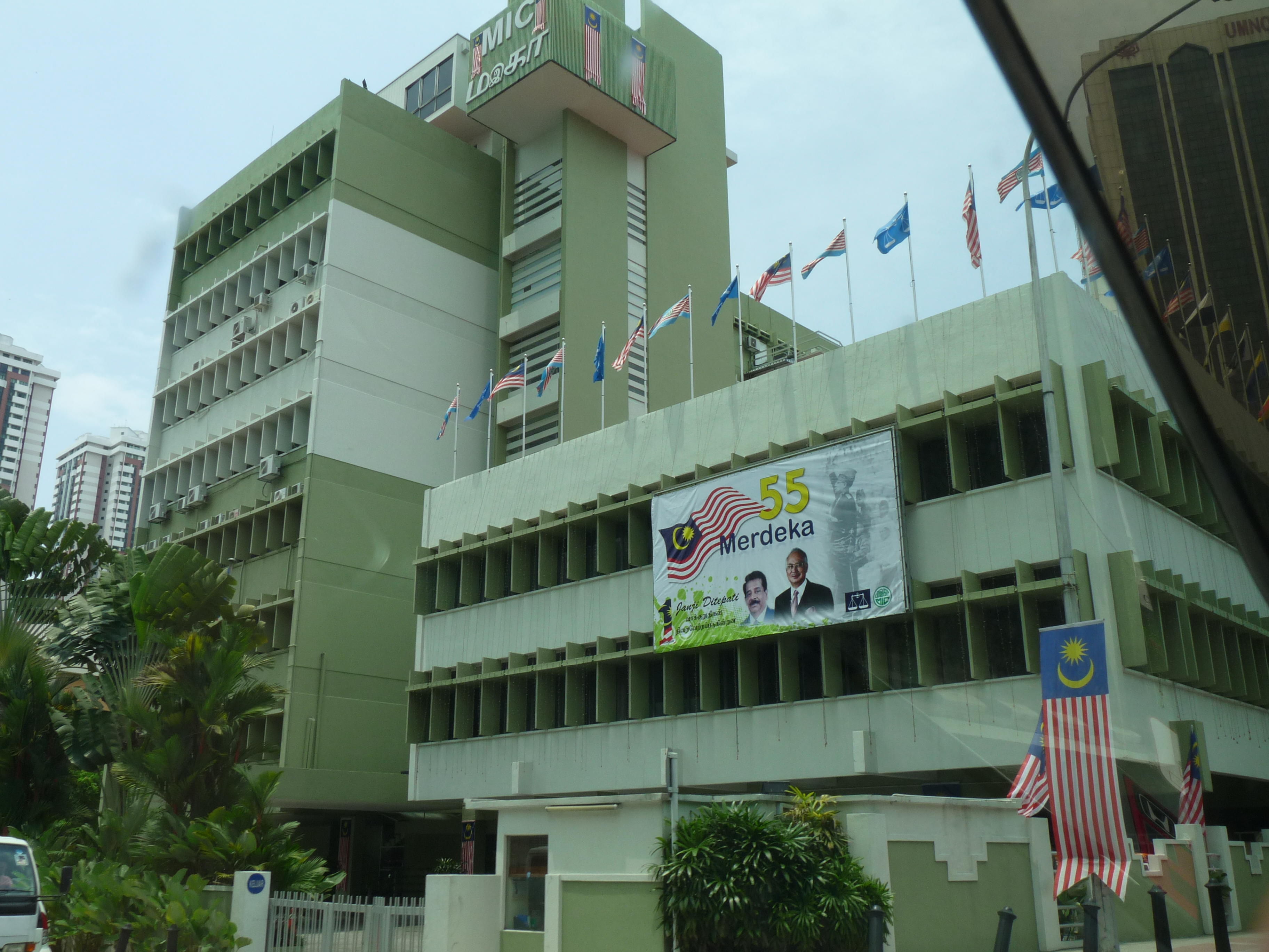 The headquarters of Malaysian Indian Congress at Jalan Maxwell near Putra World Trade Centre in Kuala Lumpur.